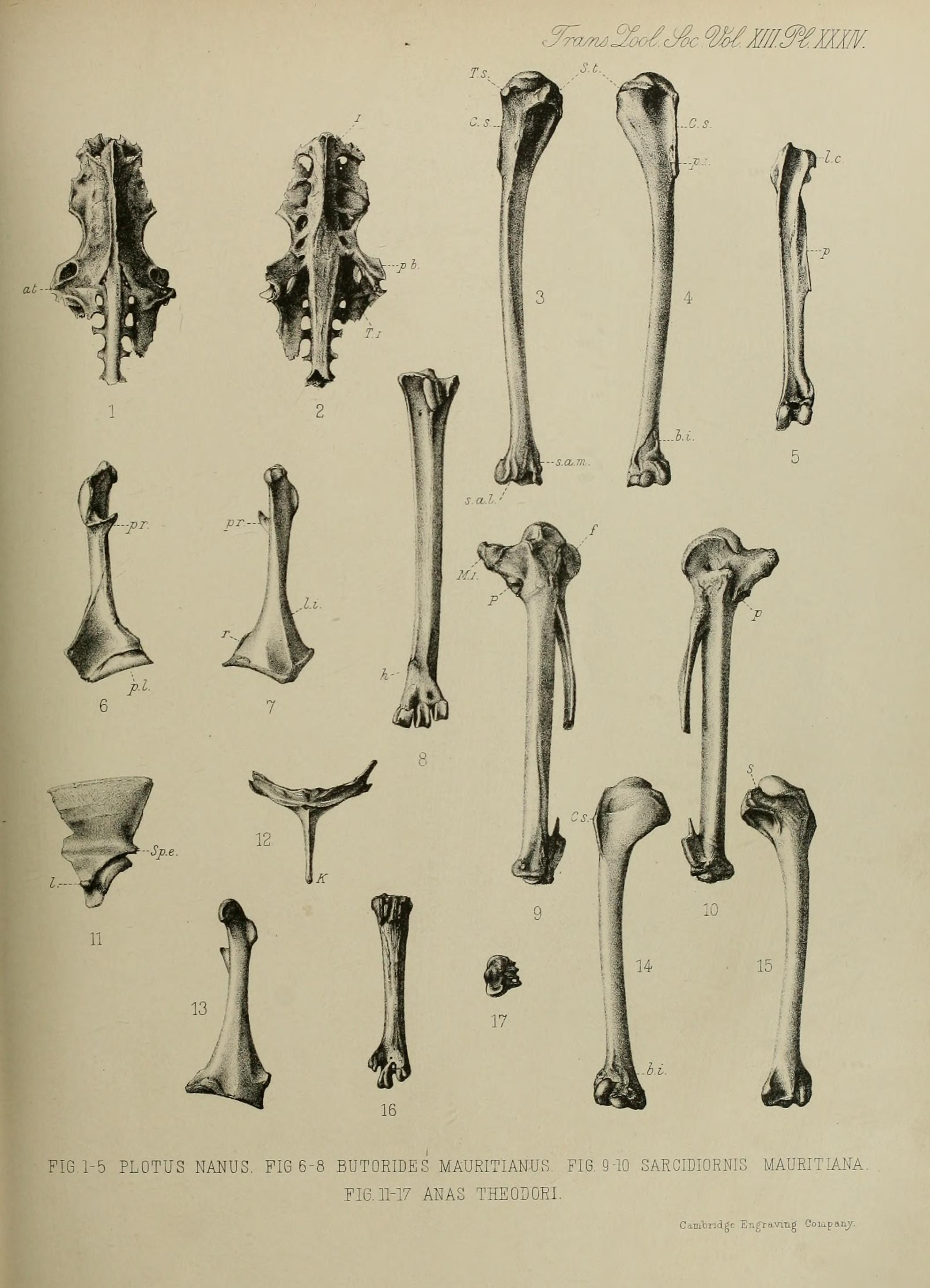 Plotus nanus (= Microcarbo africanus nanus; 1-5), Nycticorax mauritianus (6-8), Alopochen mauritianus (9-10), and Anas theodori (11-17).